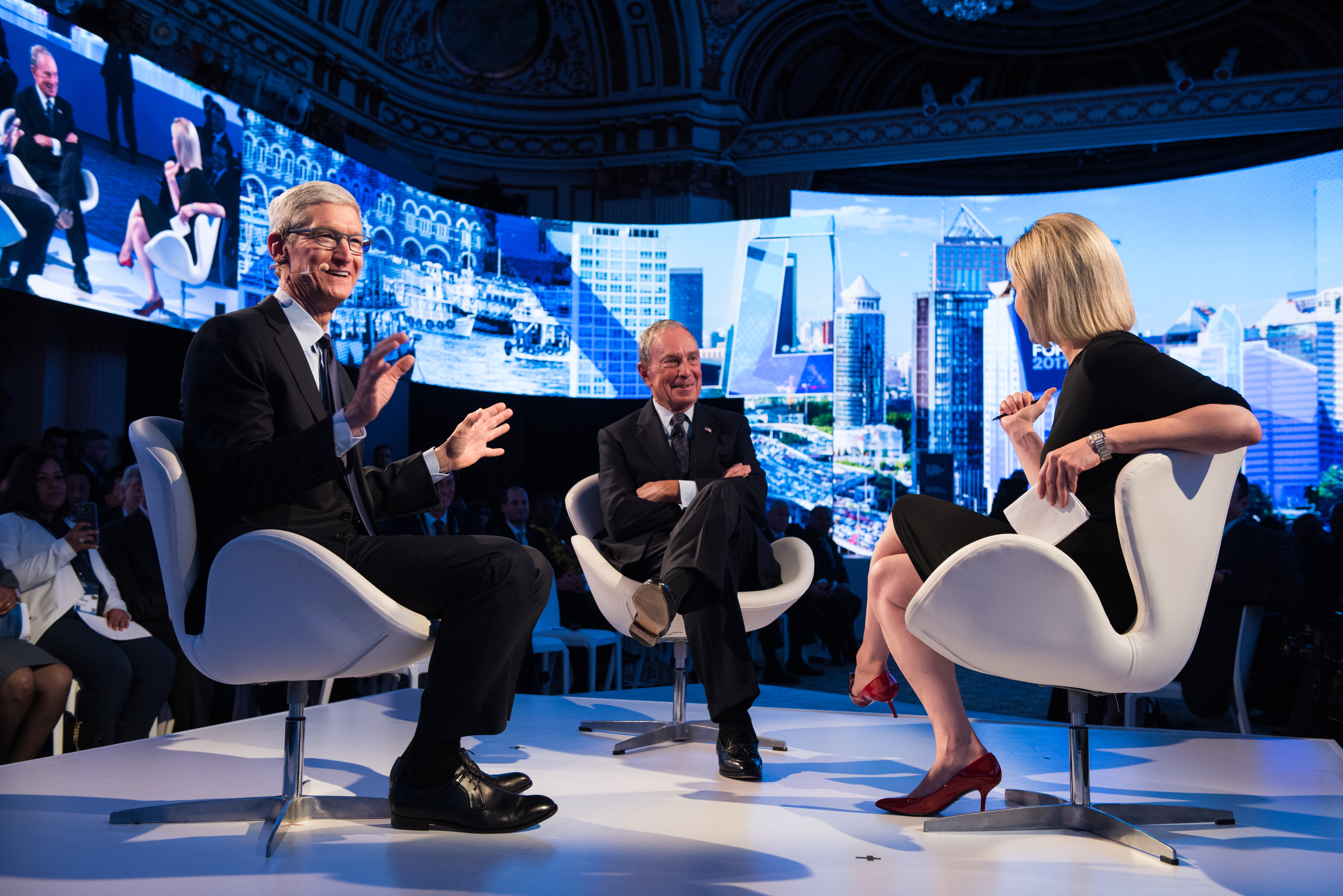 Apple CEO Tim Cook, Bloomberg LP Founder Mike Bloomberg and BusinessWeek editor Megan Murphy at the 2017 Global Business Forum